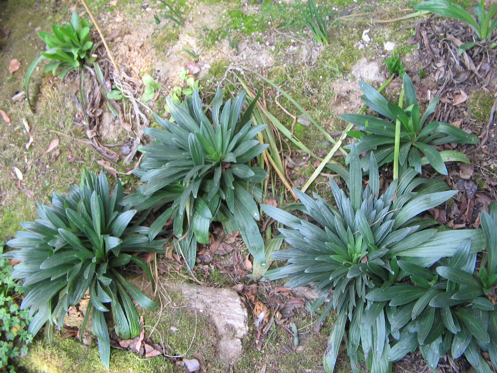 Basilar leaves of Digitalis ferruginea